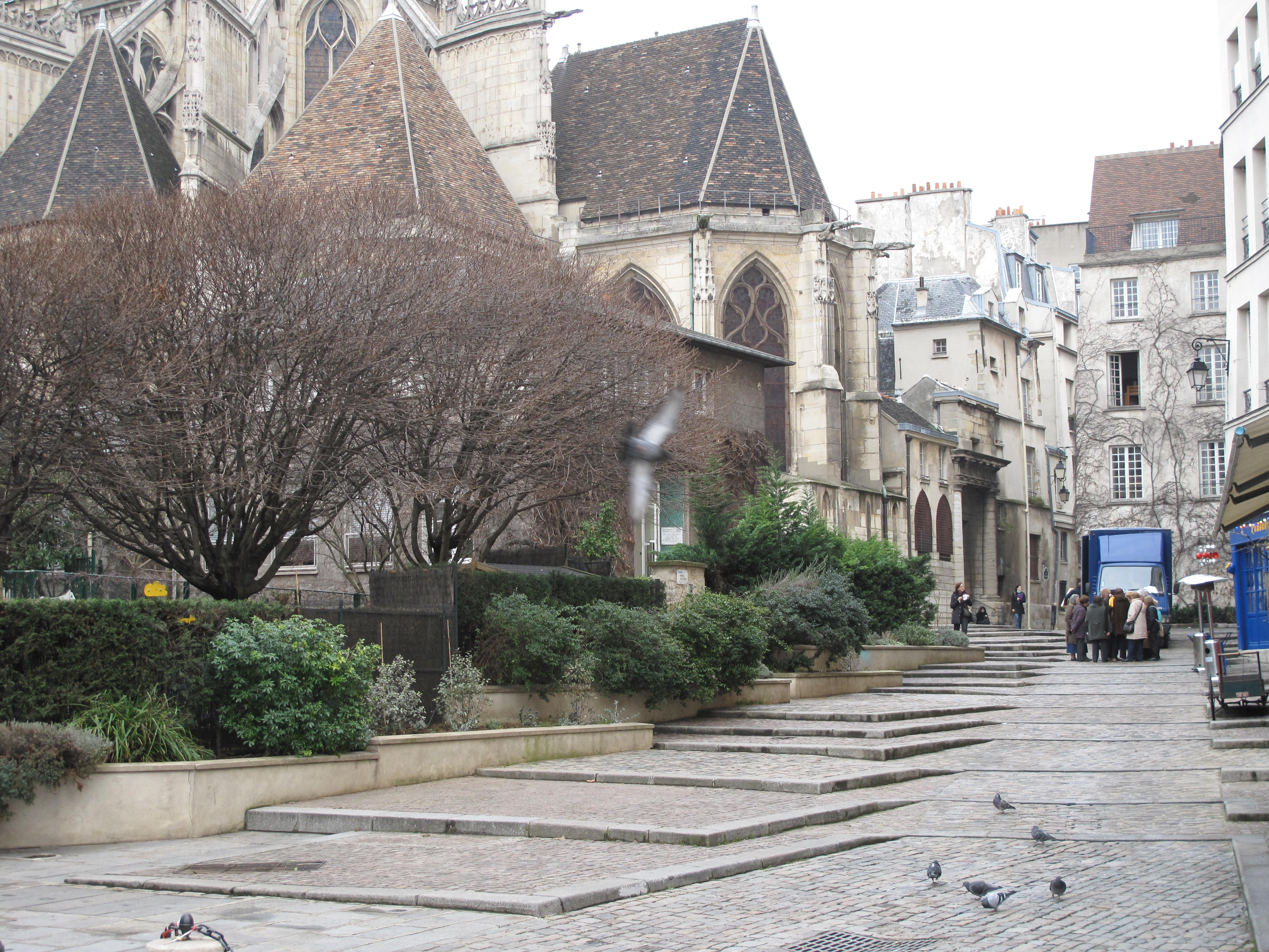 The rue des Barres, Paris 4th arr. On the left the apse of the church Saint-Gervais-Saint-Protais.